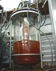 An enrichment culture of anaerobic ammonium oxidizing bacteria (Radboud University Nijmegen)